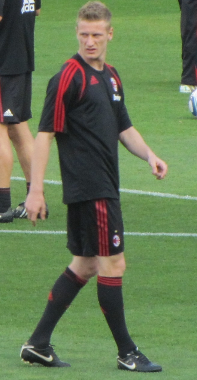 Ignazio Abate before Chicago Fire-AC Milan, 30 May 2010